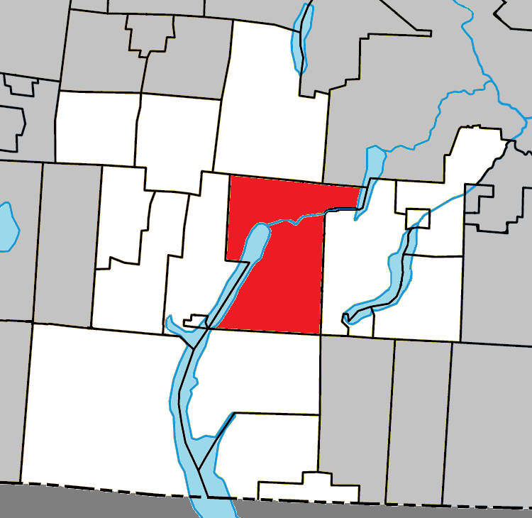 Location of Magog, Quebec within Memphrémagog Regional County Municipality.